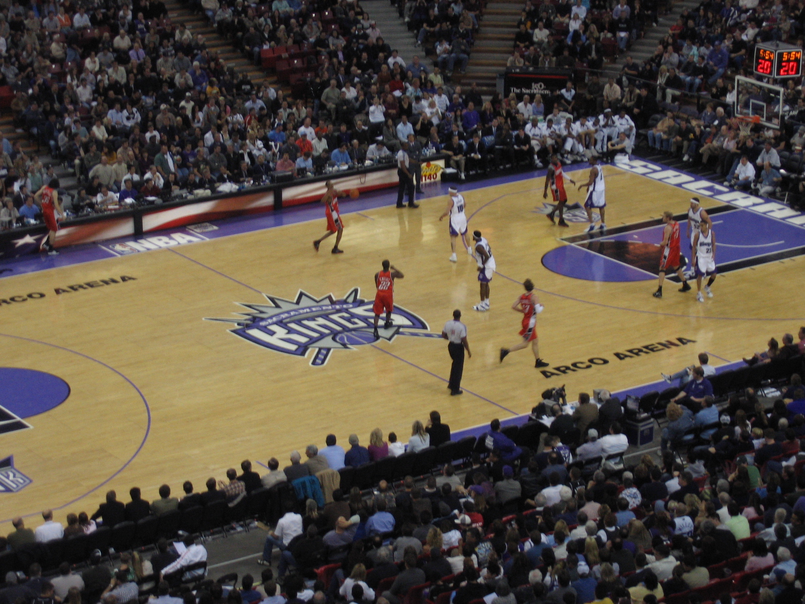 Taken by ClonedPickle on February 28, 2007.